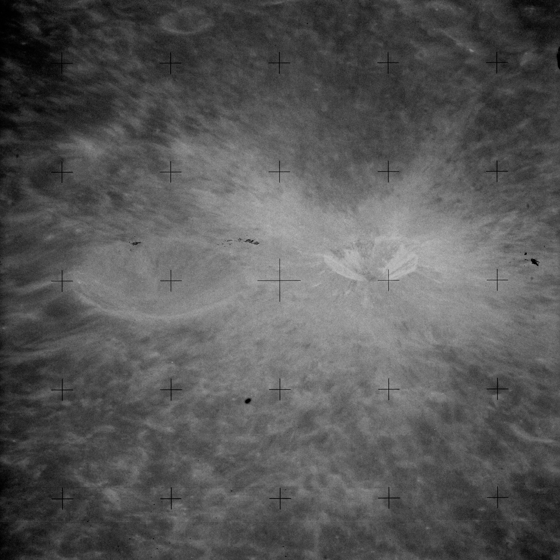 Oblique view of Censorinus crater, at right, with the larger Censorinus A at left. The brightness and contrast have been greatly altered from the original.